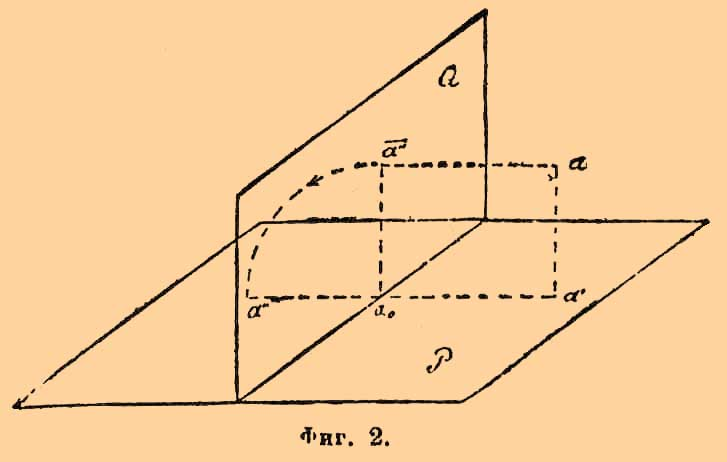 Illustration from Brockhaus and Efron Encyclopedic Dictionary (1890—1907)